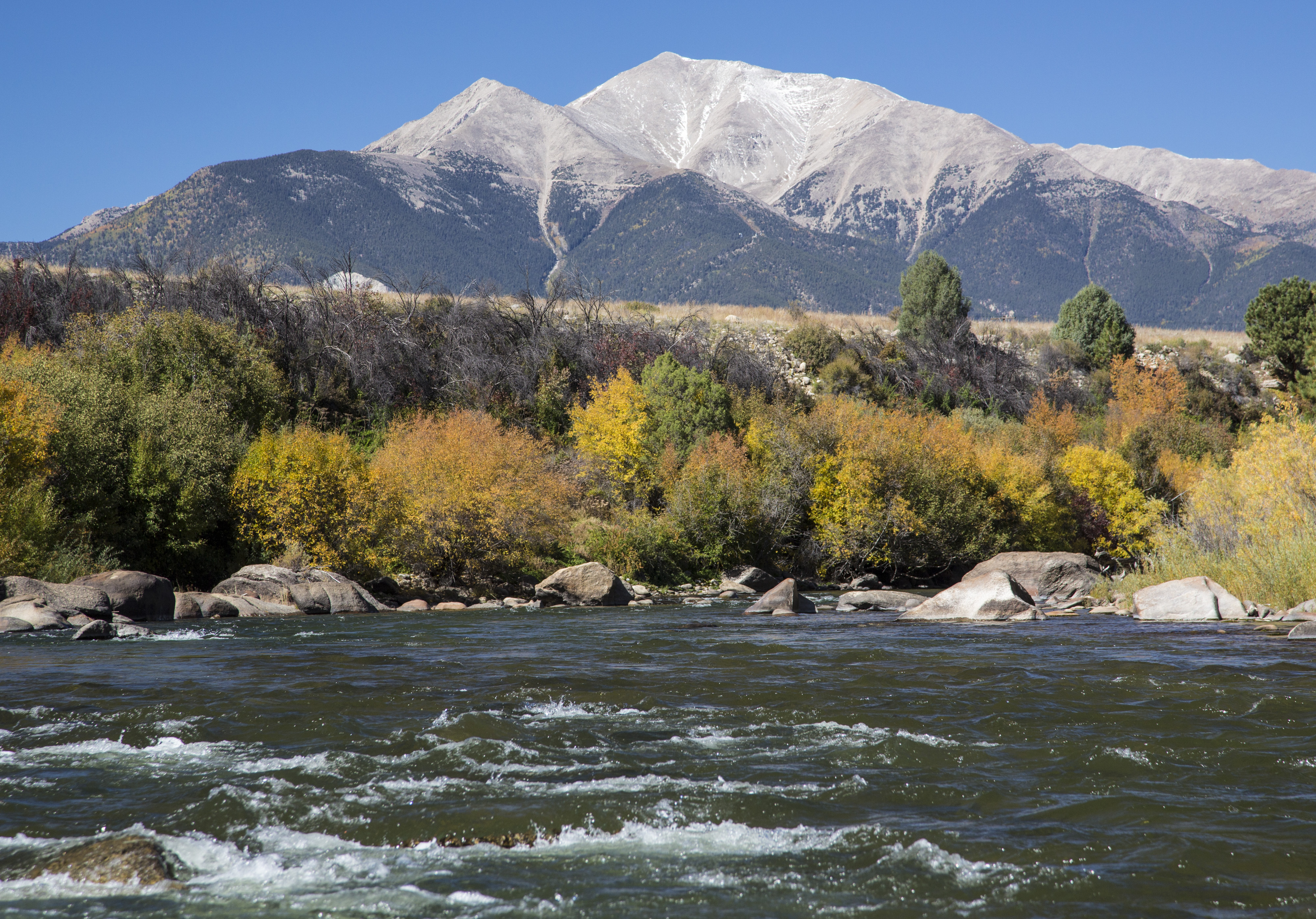 The Browns Canyon National Monument in Colorado will protect a stunning section of Colorado’s upper Arkansas River Valley. Located in Chaffee County near the town of Salida, Colorado, the 21,586-acre monument features rugged granite cliffs, colorful rock outcroppings, and mountain vistas that are home to a diversity of plants and wildlife, including bighorn sheep and golden eagles. Members of Congress, local elected officials, conservation advocates, and community members have worked for more than a decade to protect the area, which hosts world-class recreational opportunities that attract visitors from around the globe for hiking, whitewater rafting, hunting and fishing. In addition to supporting this vibrant outdoor recreation economy, the designation will protect the critical watershed and honor existing water rights and uses, such as grazing and hunting. The monument will be cooperatively managed by the Department of the Interior’s Bureau of Land Management and USDA’s National Forest Service. Learn more: Photos by Bob Wick, BLM